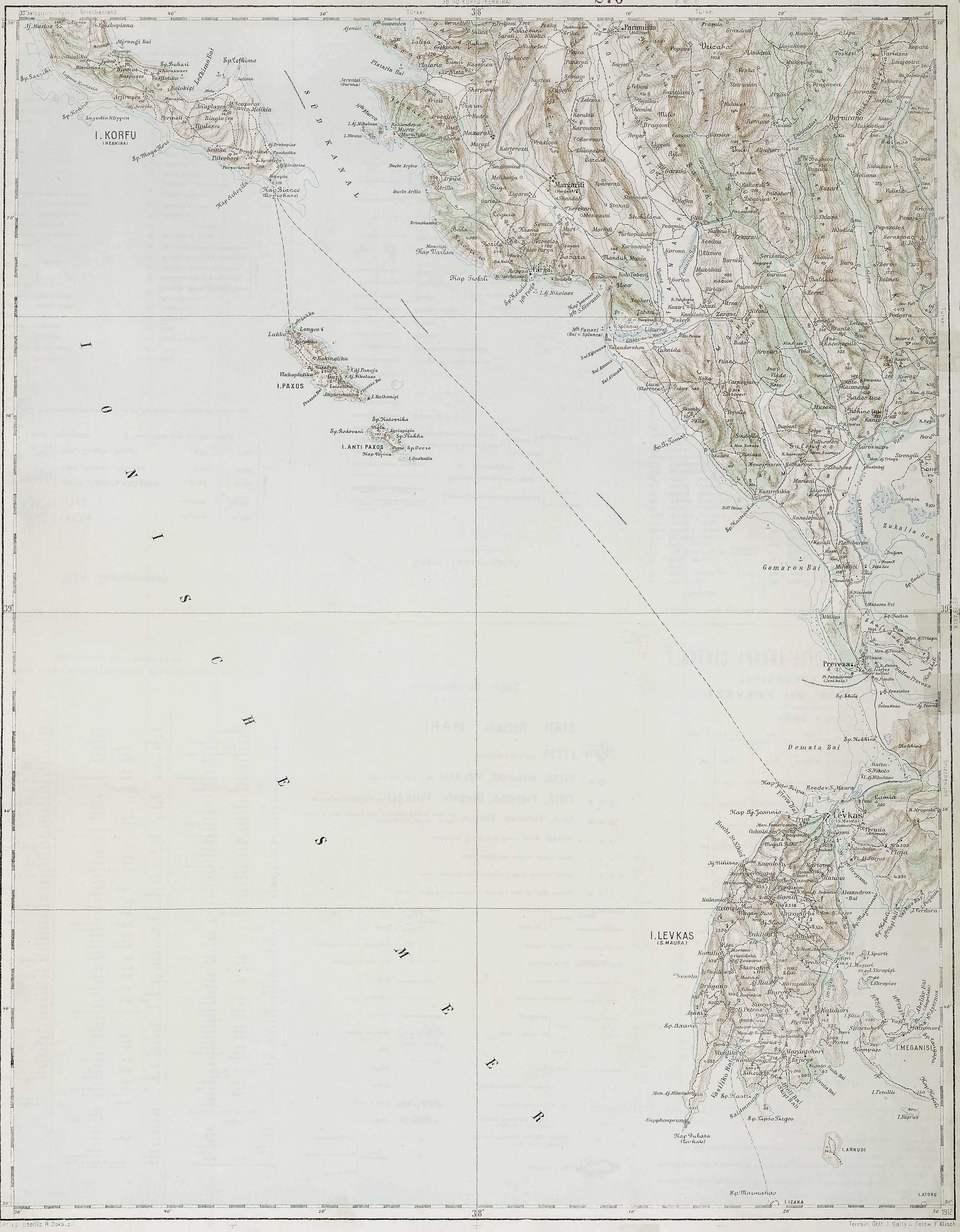 3rd Military Mapping Survey of Austria-Hungary - Prevenza